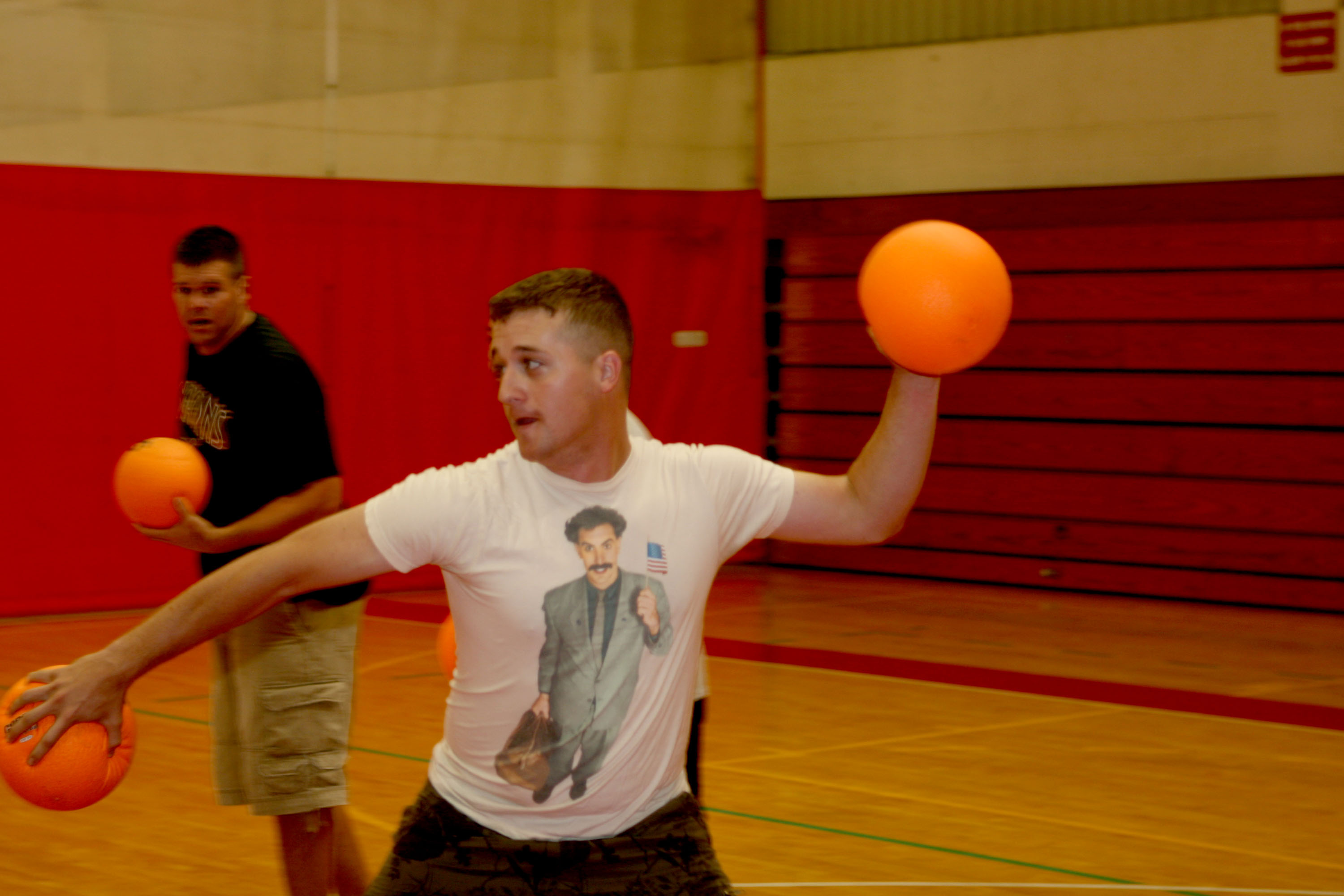 Chris Wliszczak, Marine Corps Air Facilities Renegades player, rears back as he prepares to throw, during a 101 Days of Summer dodge-ball tournament at the Semper Fit Center Aug. 16.